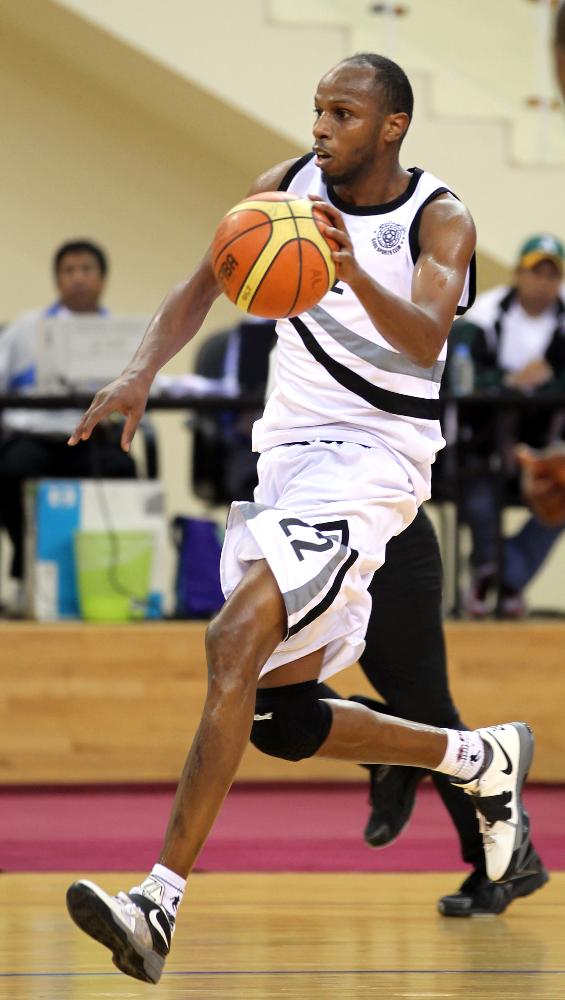 Al Sadd's Khaled Sulaiman Abdi runs with the ball during their Qatar League game against Al Rayyan. Picture by Mohan